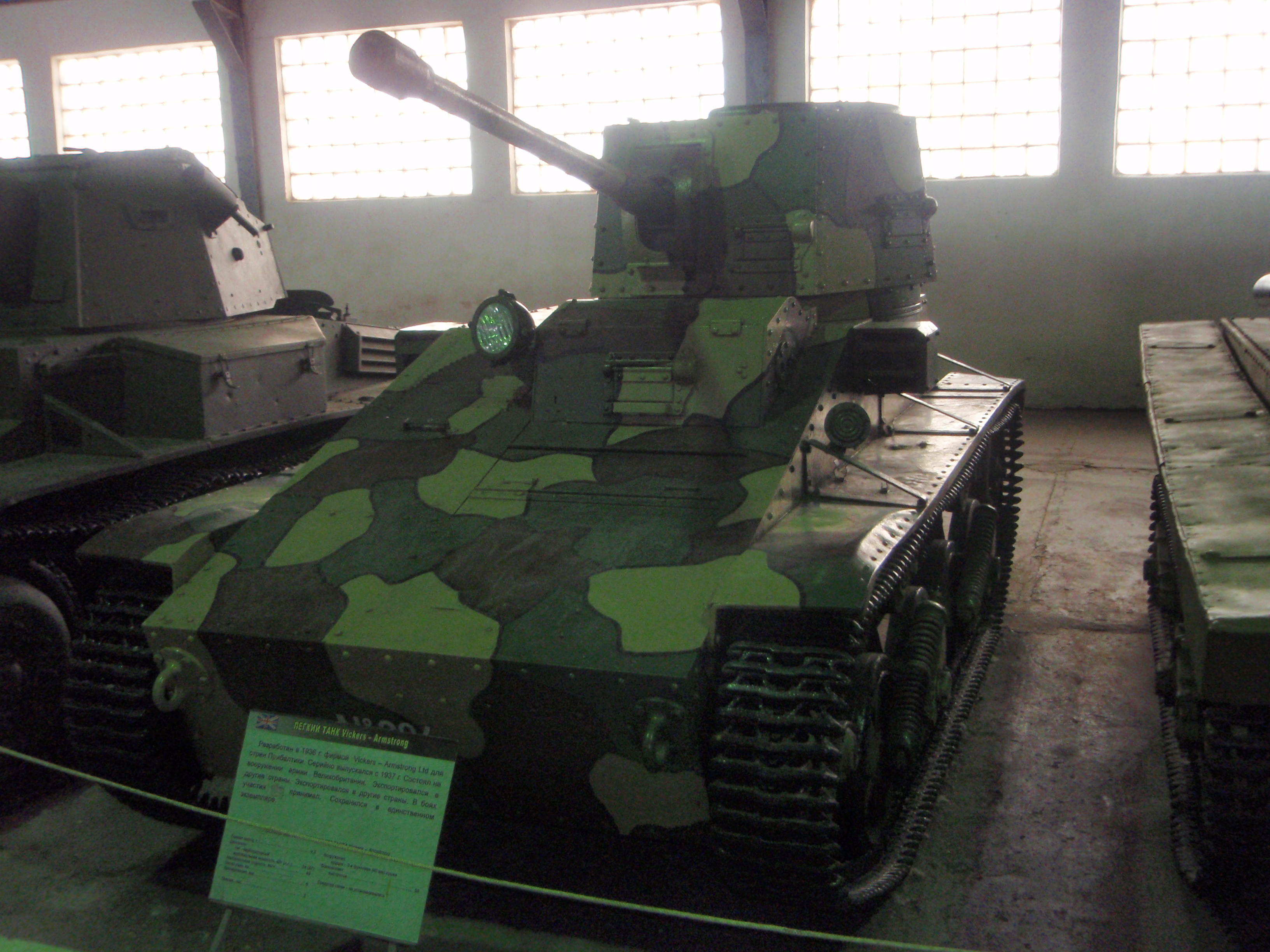 The inscription on the plate: "Light tank Vickers-Armstrong. Designed in 1936 by Vickers-Armstrong Ltd for the Baltic States. Serially produced since 1937. Was in service with the British army. Was exported to other countries. The battle did not participate. Preserved in a single copy."